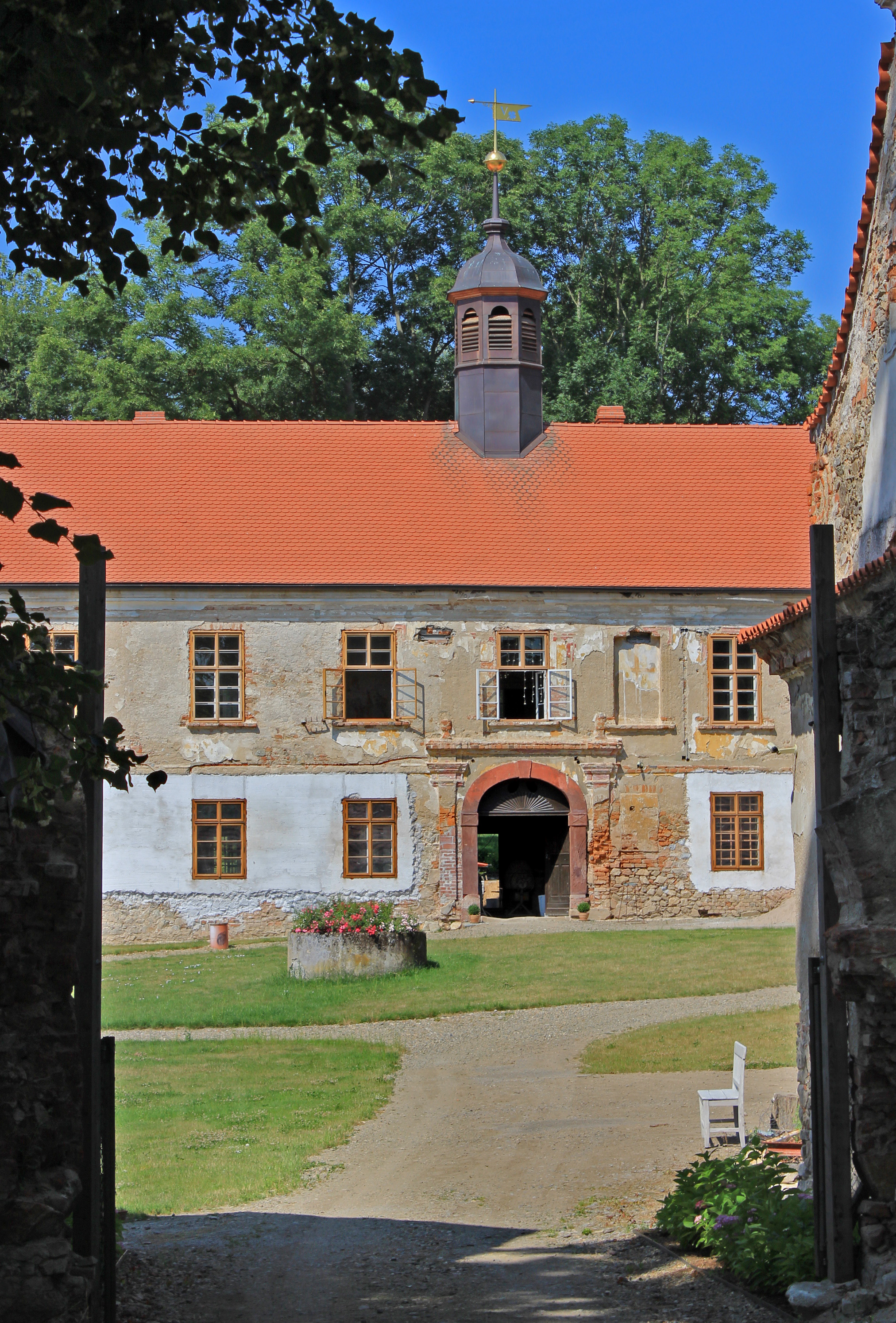 Třebešice castle in Třebešice, Czech Republic.